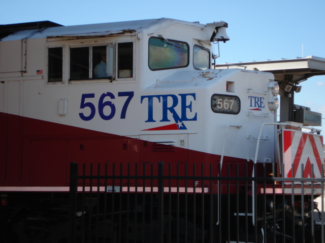 Mingo Molina 2006 (This Trinity Railway Express (TRE) locomotive (ex-GO Transit) was caught at the Fort Worth, Texas Amtrak Station, in early 2006.)